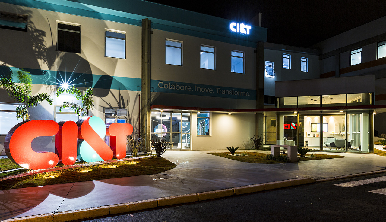 CI&T headquarters